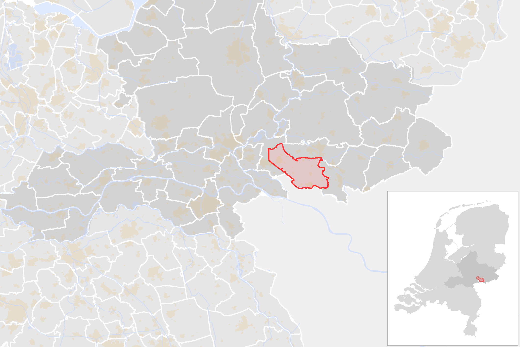 Locator map showing municipality boundary of one of the 390 Dutch municipalities (as of 2016)